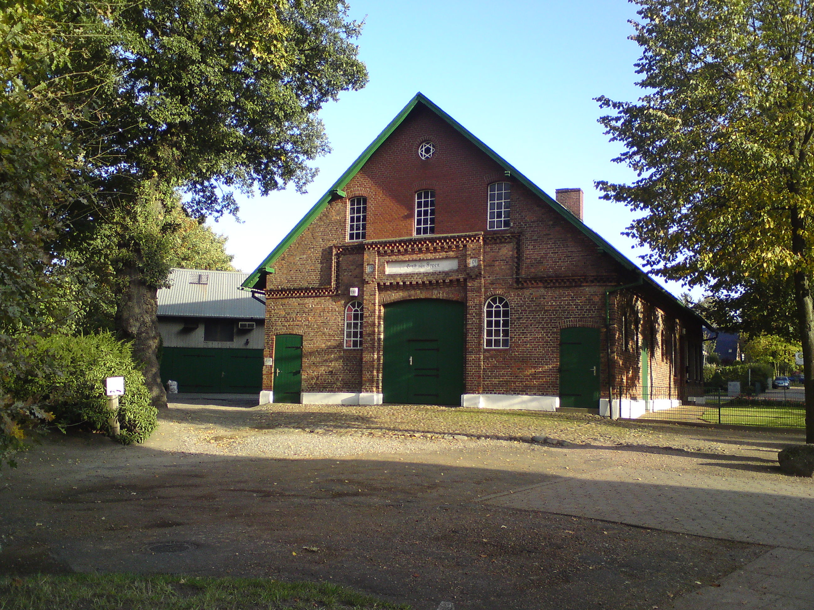 Farm building in Hamburg-Sülldorf, Germany, built 1901